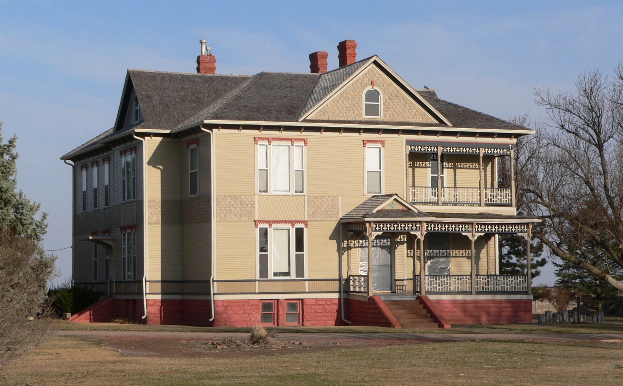 George Meisner House north of Shelton in Buffalo County, Nebraska; seen from the northwest. The house was constructed in Queen Anne style in 1893-4; in 1915, it was remodelled in the Neoclassical style. It is listed in the National Register of Historic Places.